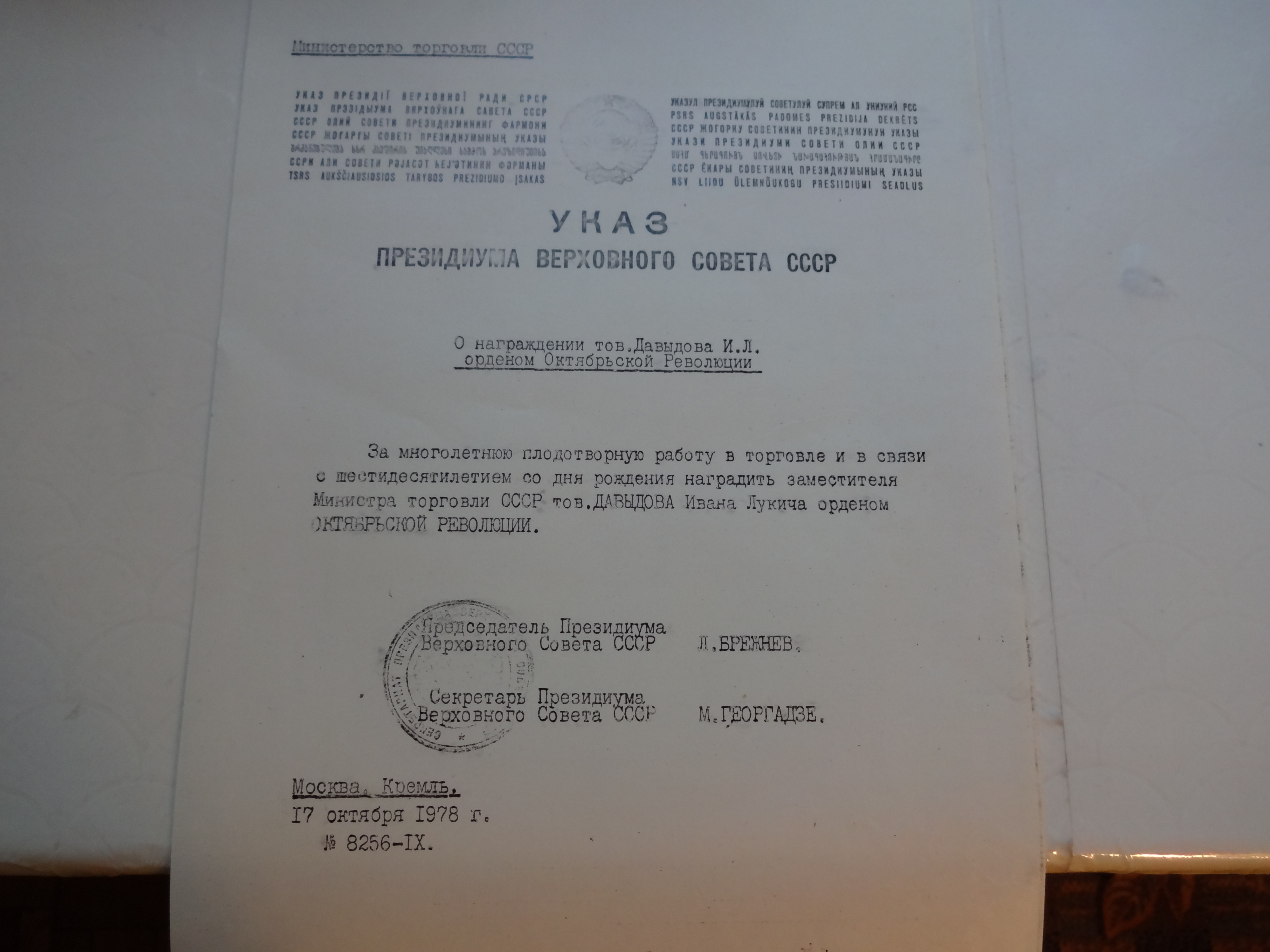 Указ Президиума Верховного Совета СССР